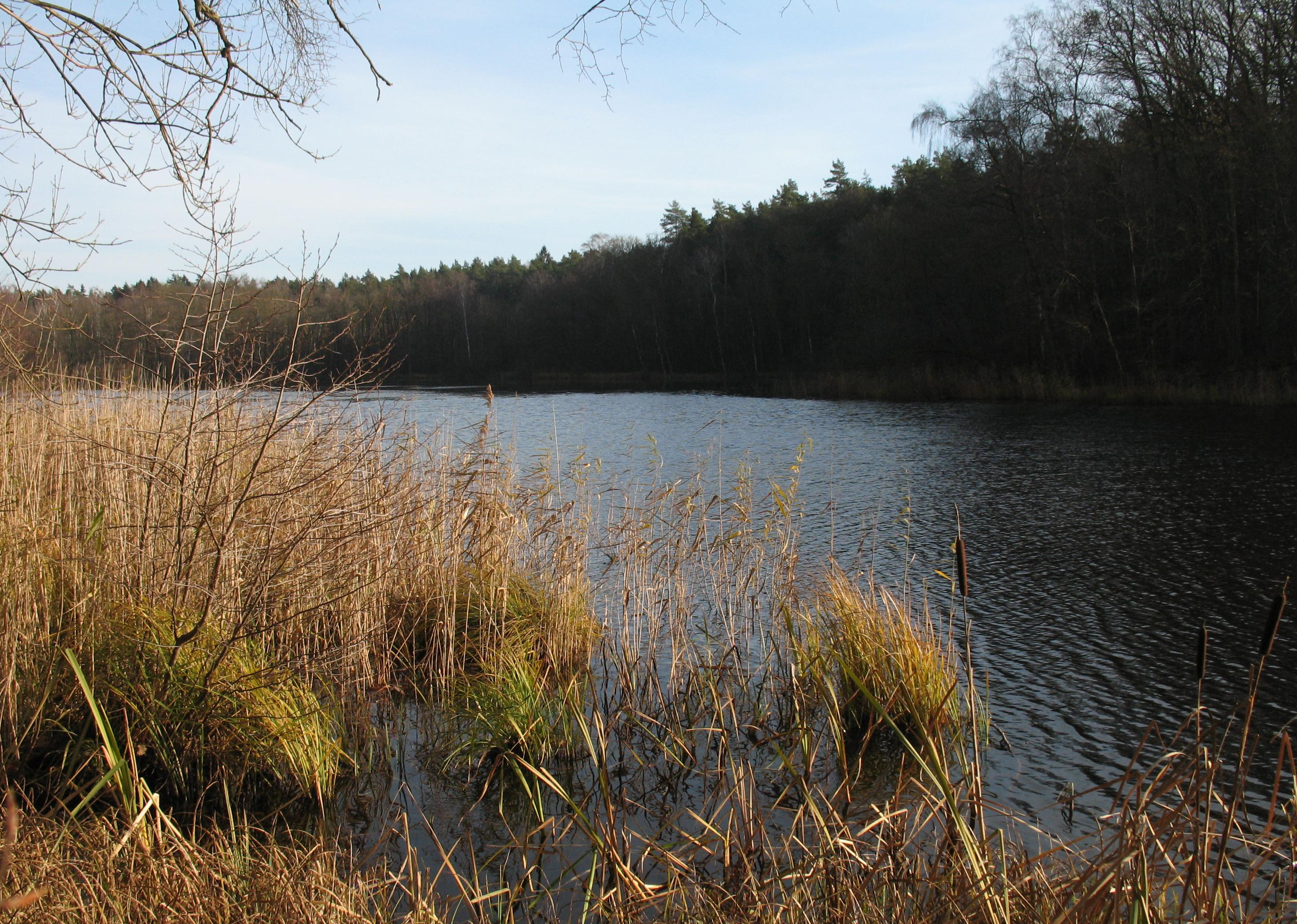 Lake Rohrteich near Röbel in Mecklenburg-Western Pomerania, Germany